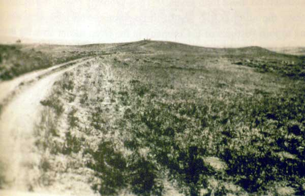 Photo taken in 1894 by H.R. Locke on Battle Ridge looking toward Last Stand Hill top center. Wooden Leg Hill can be seen at the far top right.